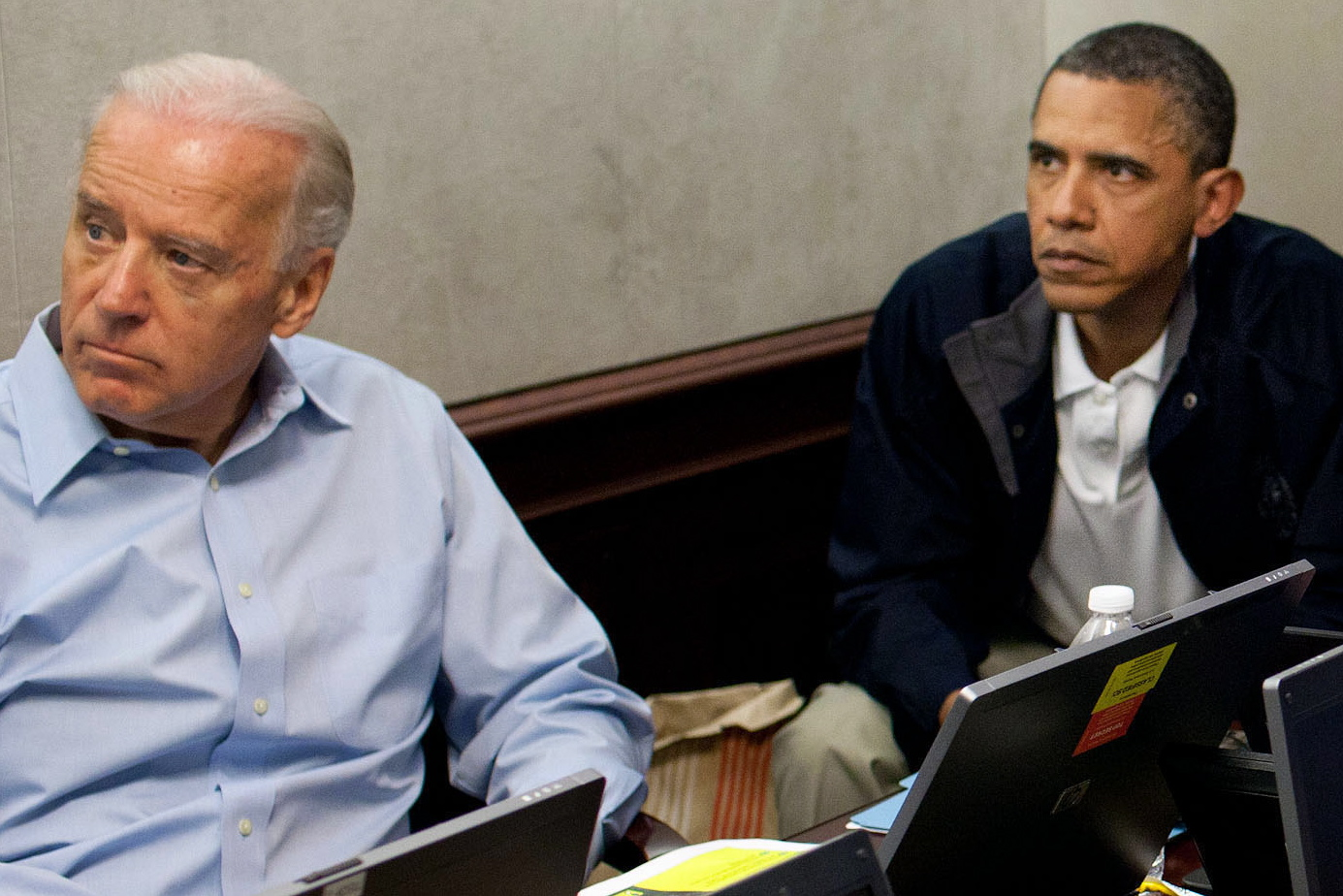 A burn bag, and security classification stickers on a laptop computer, between U.S. President Barack Obama and Vice President Joe Biden during updates on Operation Geronimo, a mission against Osama bin Laden, in the Situation Room of the White House, May 1, 2011.